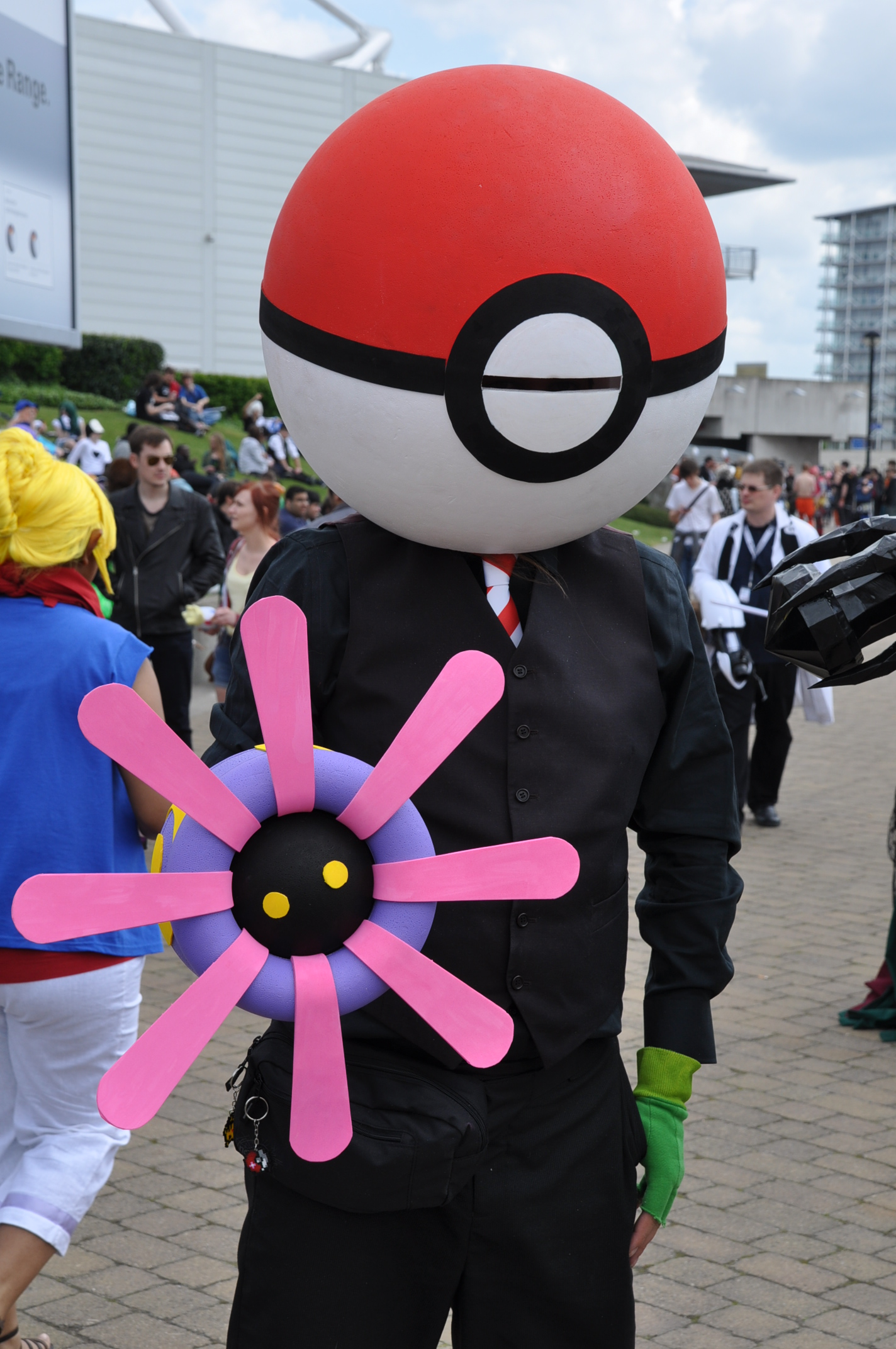 Cosplay at the Summer 2013 MCM London Comic Con at the ExCeL Exhibition Centre.